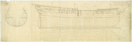 Plan showing the body plan, sheer lines, and longitudinal half-breadth for Monarch (1765); Ramillies (1763); Terrible (1762); Russell (1764); Invincible (1765); Magnificent (1766); Prince of Wales (1765); Marlborough (1767); Robust (1764), all 74-gun Third Rate, two-deckers.